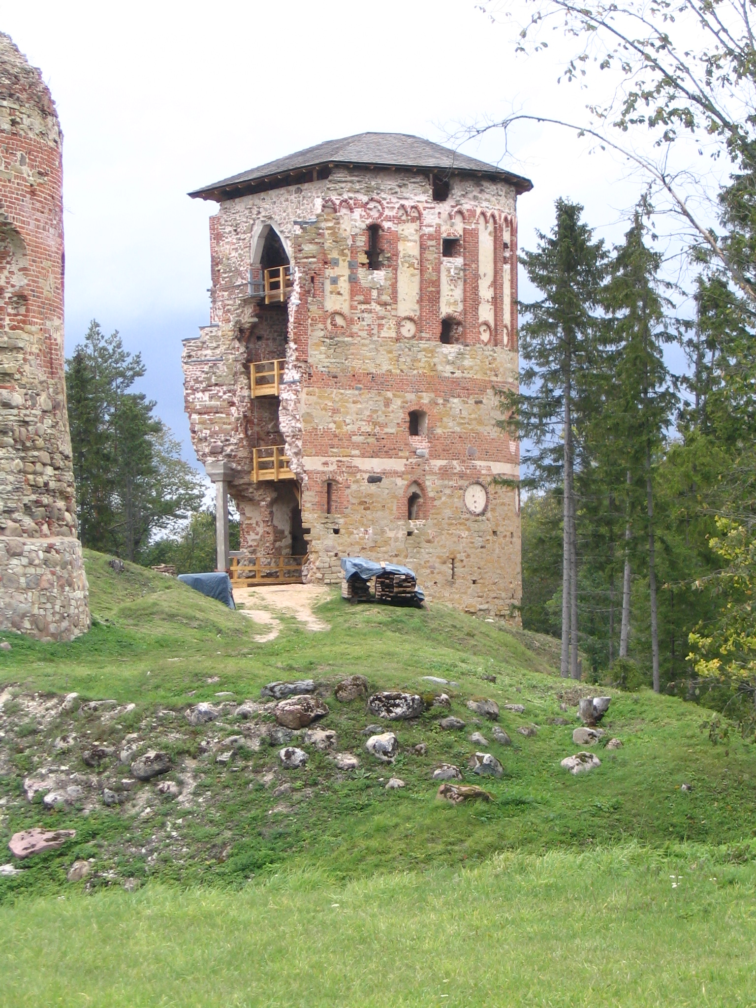 NE tower of Vastseliina Castle, Estonia. View from south. Part of the Se tower visible on left.